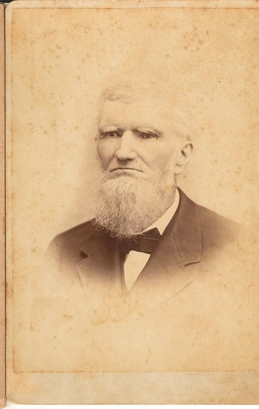 Portrait of Edmund Dumas, shape note hymnwriter and